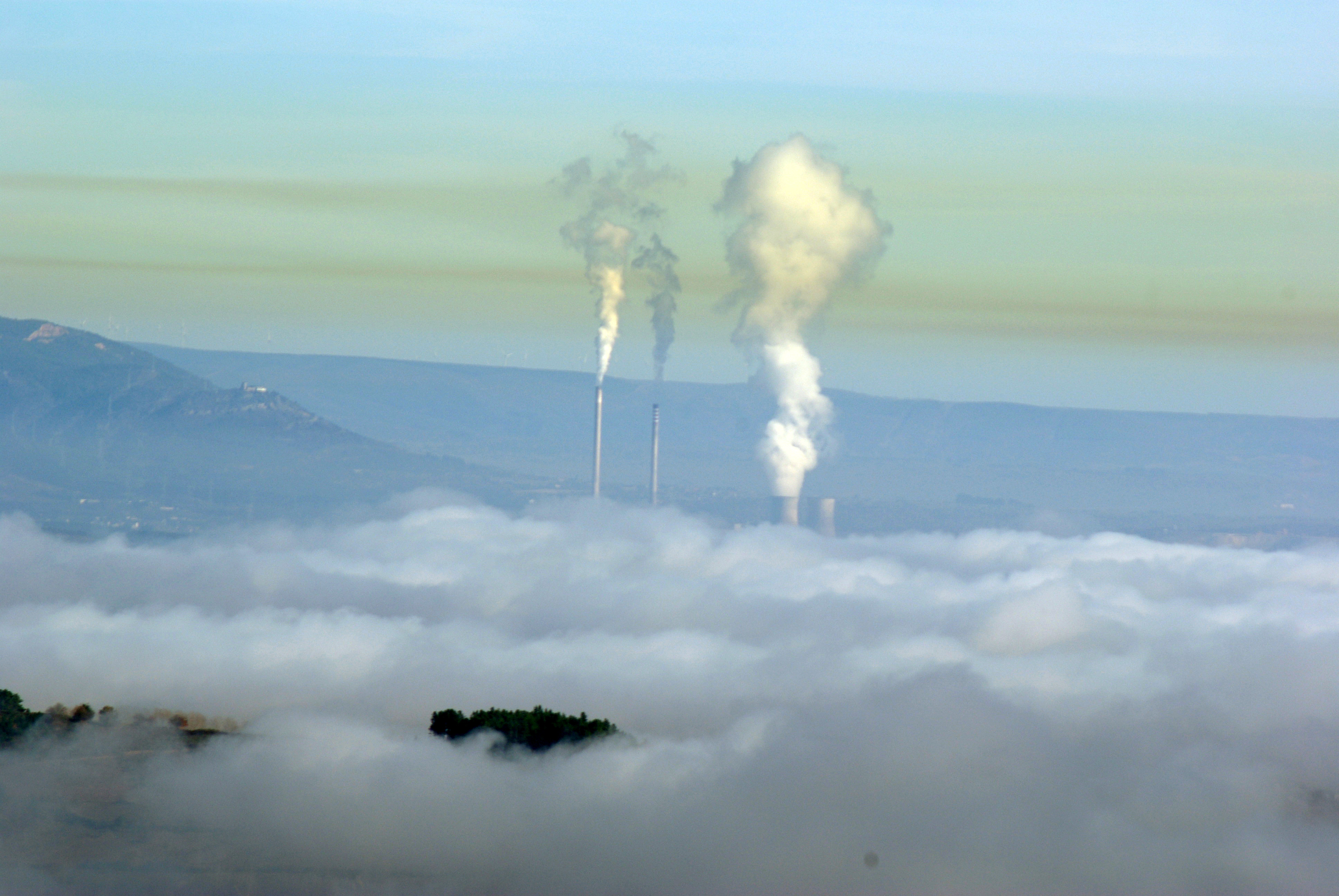 Thermal power station Compostilla II gas emissions view from Corullón (León, Spain), near Ponferrada under winter fog.